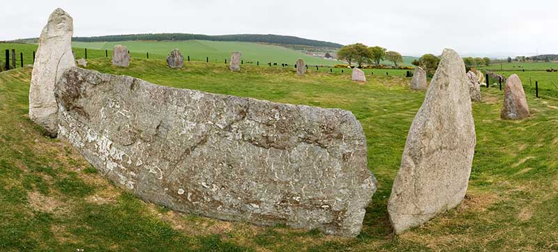 Easter Aquhorties Recumbent Stone Circle, Aberdeenshire, Scotland